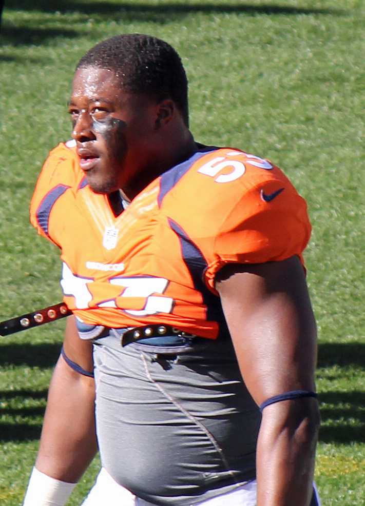 Steven Johnson, a player on the National Football Legue.